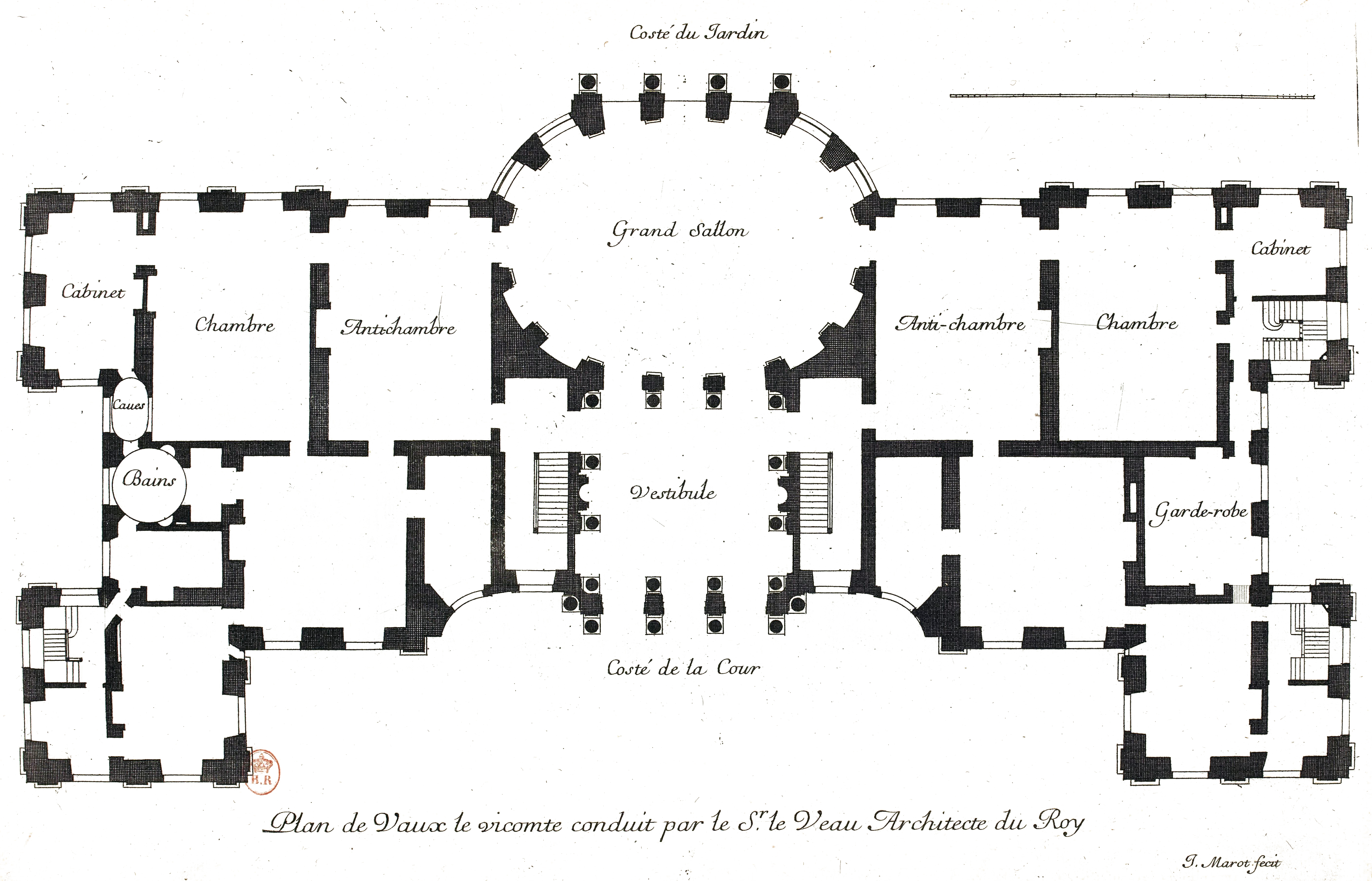 Château de Vaux-le-Vicomte in France. Plan of the main floor. Plate from Jean Marot's L'Architecture française.